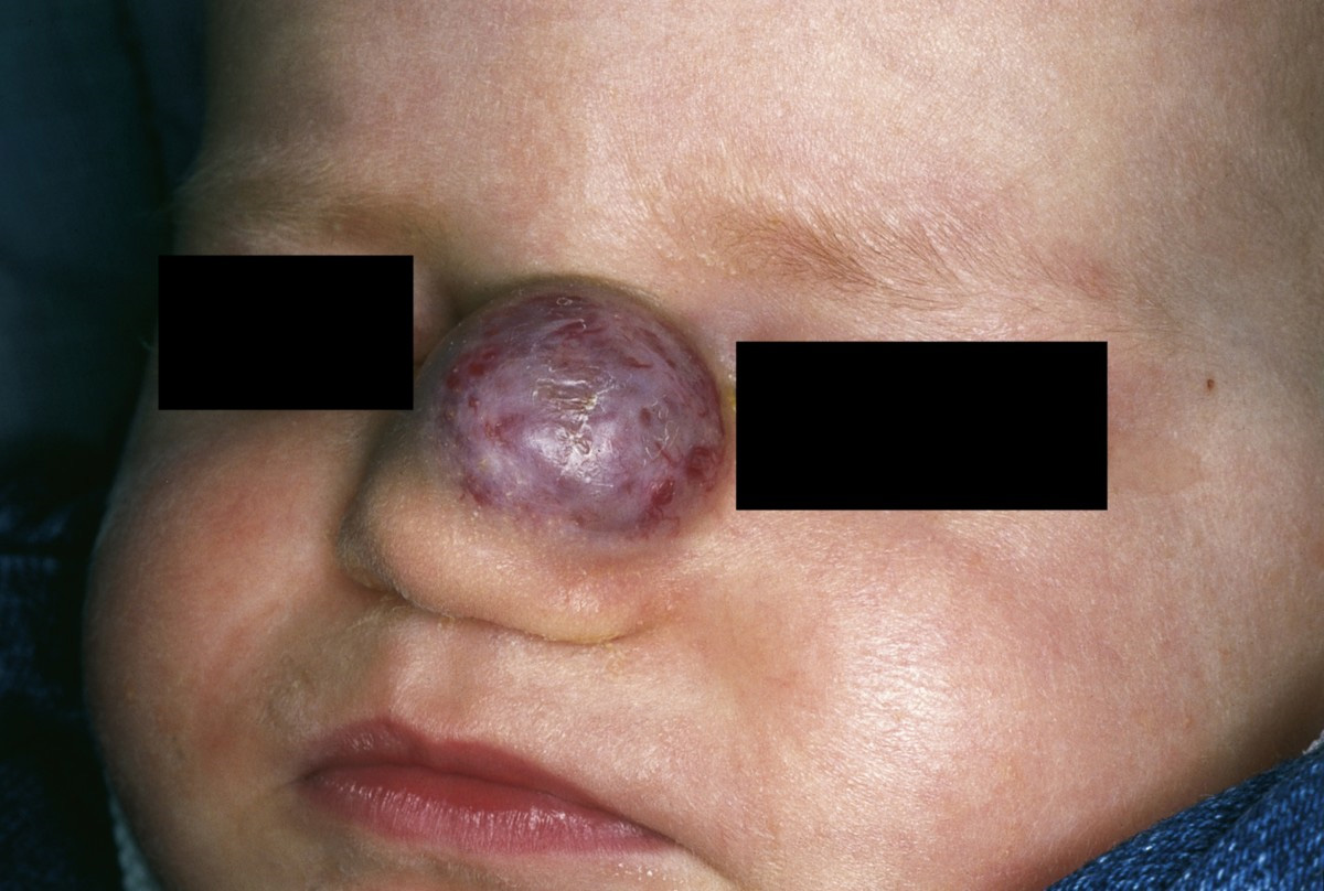 Infantile hemangioma. Well-circumscribed red, violet, exophytic vascular tumor on the nose of a one-year-old child.